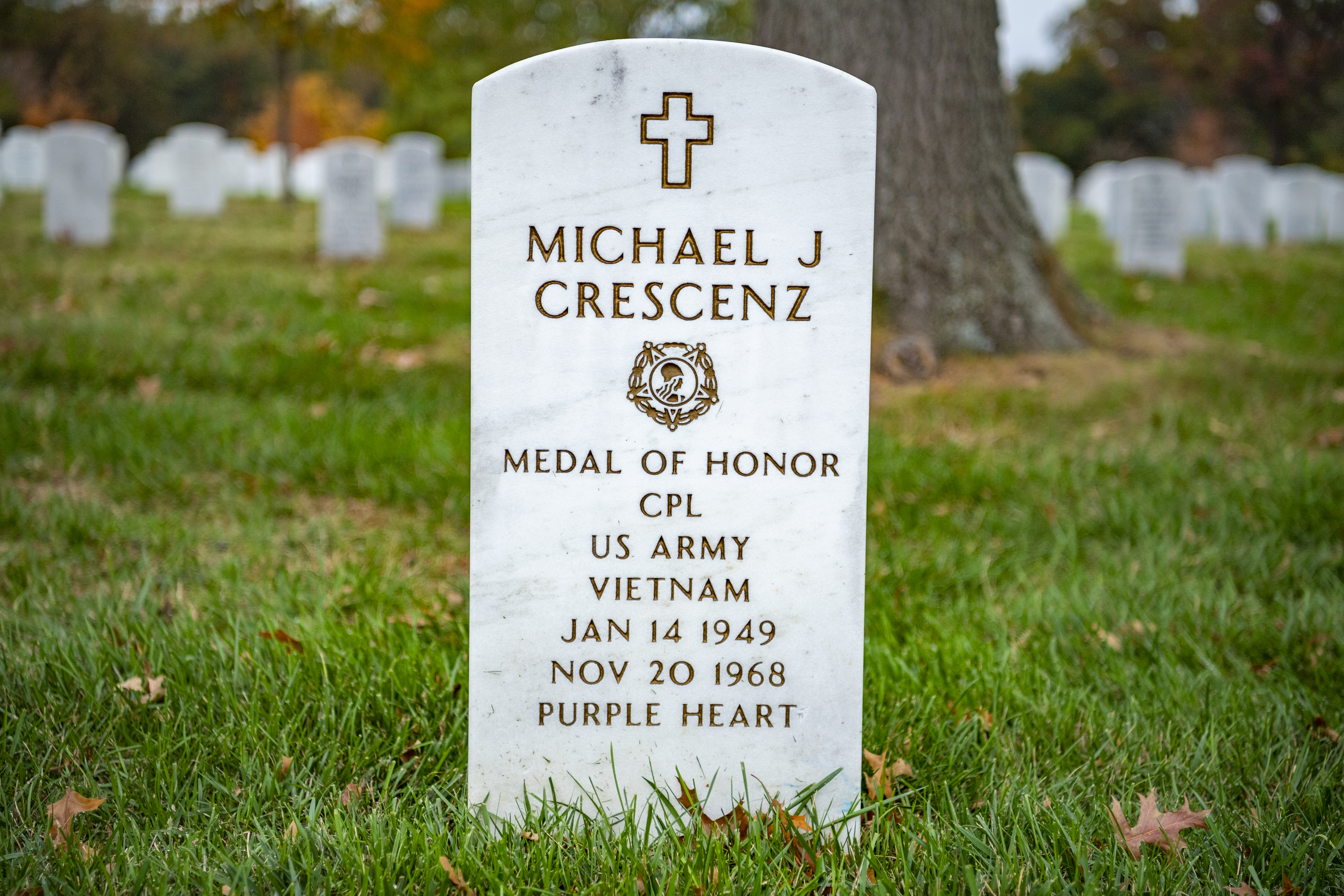 Headstone of U.S. Army Cpl. Michael Crescenz in Section 59 of Arlington National Cemetery, Arlington, Virginia, Oct. 30, 2019. (U.S. Army photo by Elizabeth Fraser / Arlington National Cemetery / released)